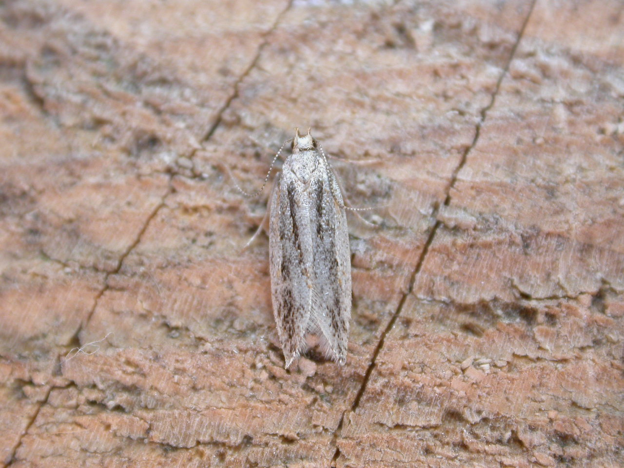 Anarsia lineatella in Hellerup, Denmark